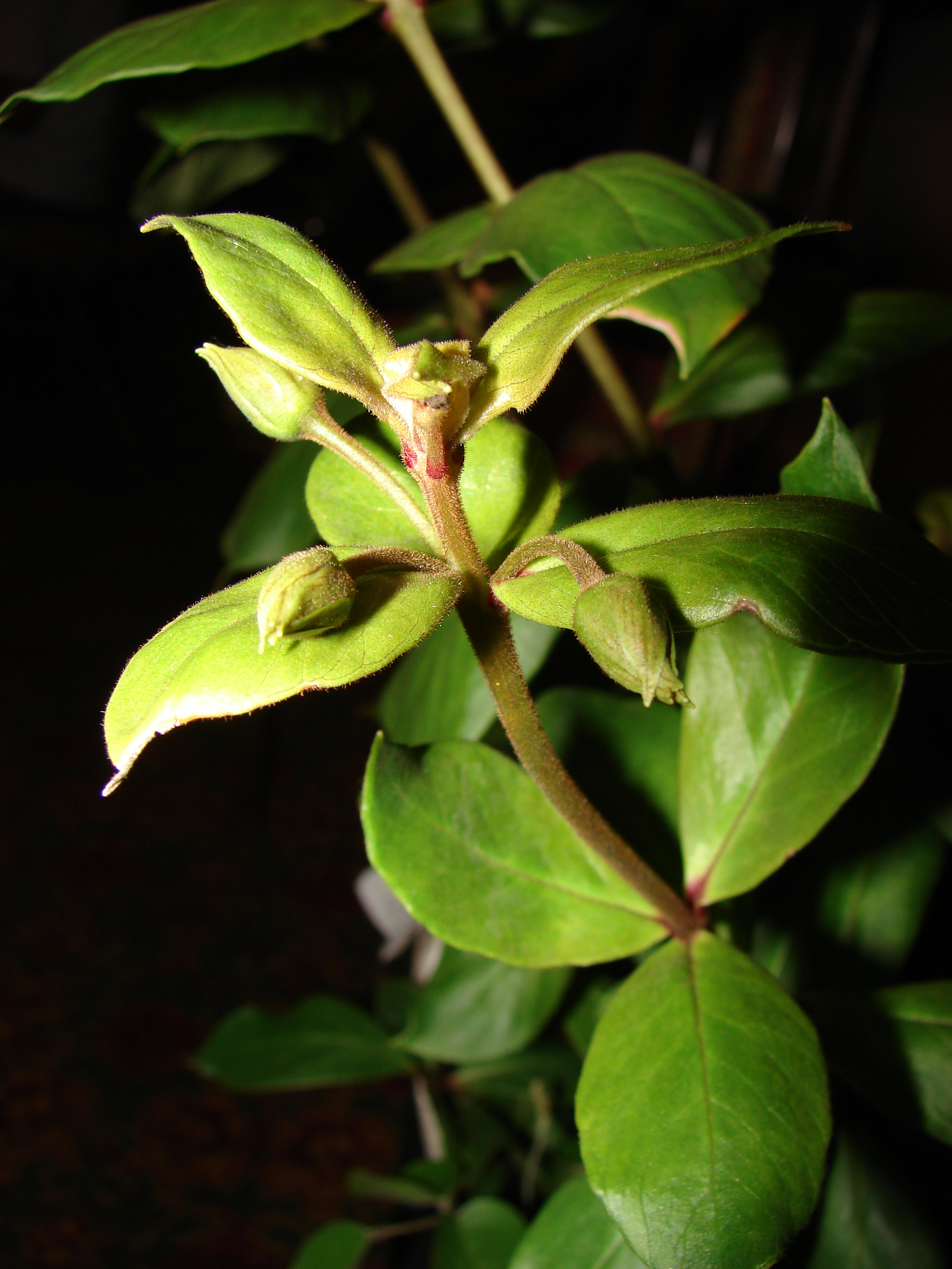 Lysimachia maxima (leaves and flower buds). Location: Molokai, Unknown location